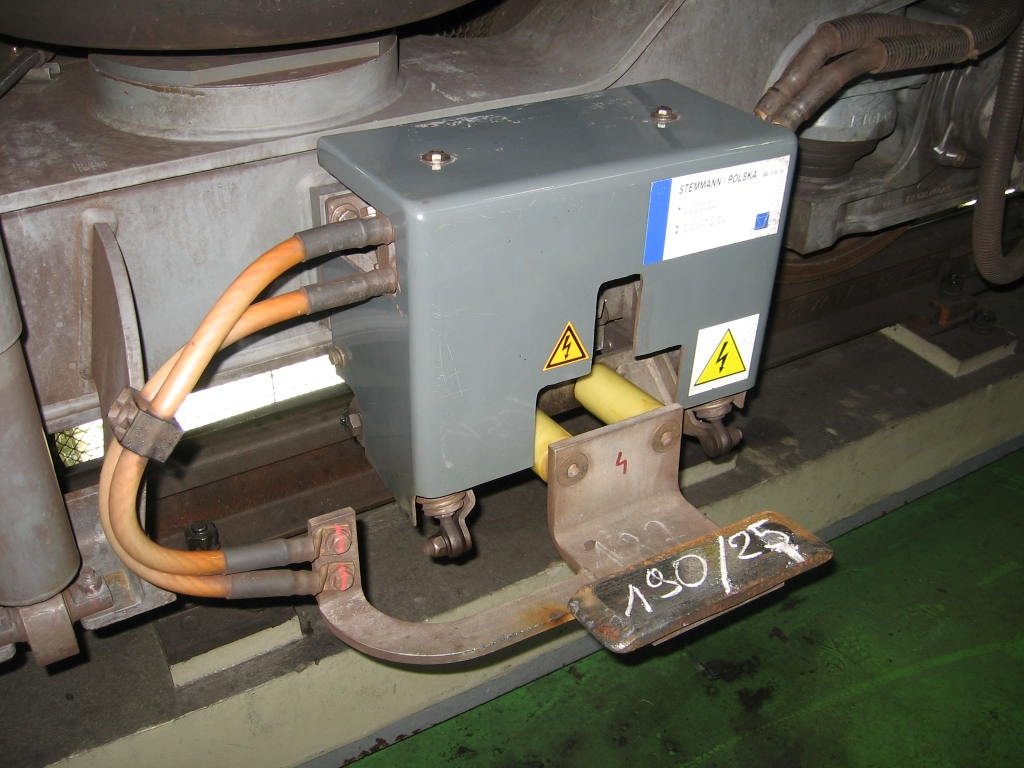 Alstom Metropolis 98B current collector, Warsaw metro